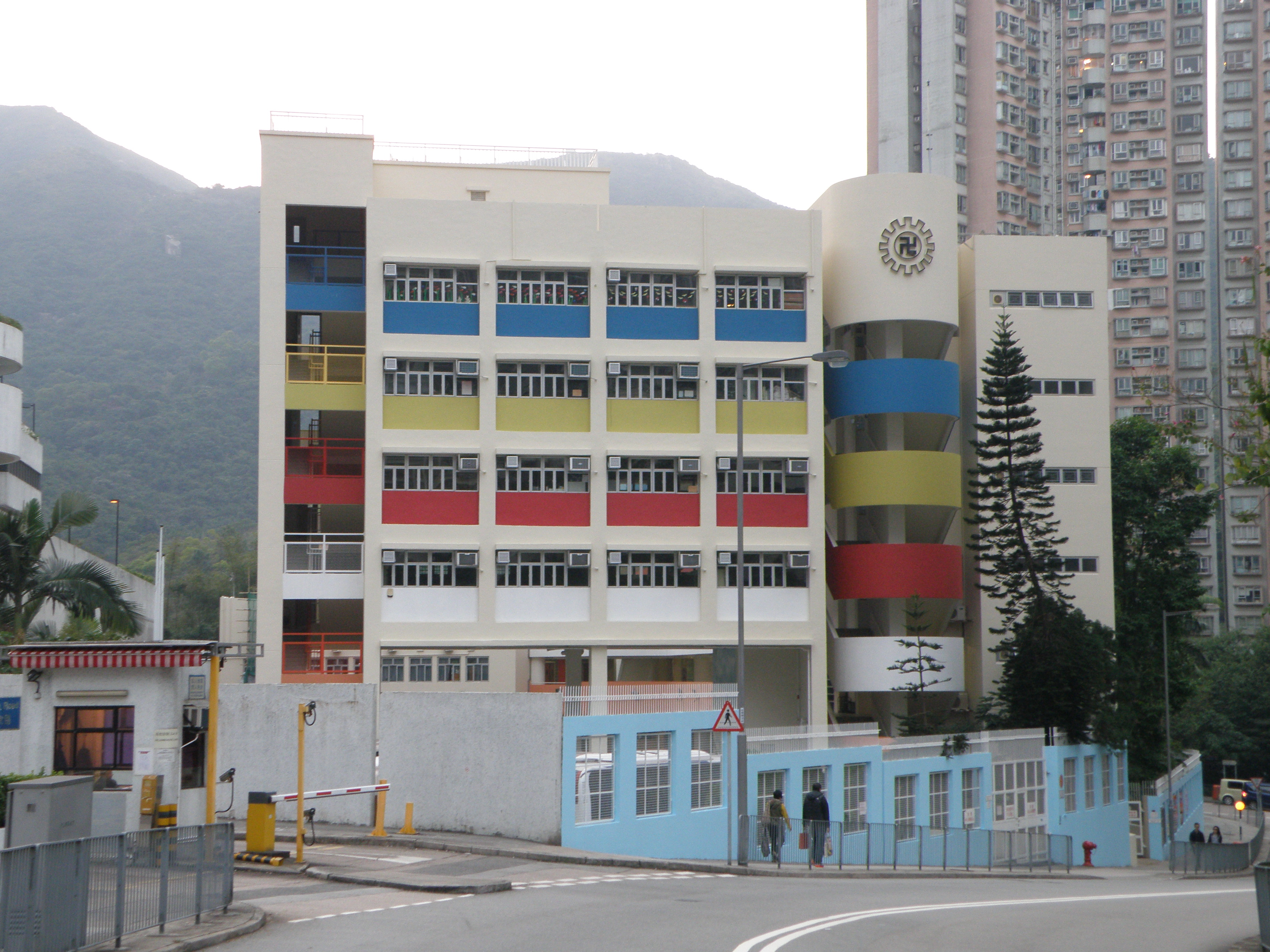 Buddhist Chung Wah Kornhill Primary School in Kornhill, Hong Kong.